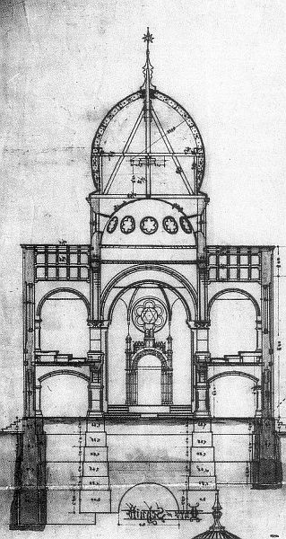 Architect drawing of the synagogue of Marburg (1896*1938).